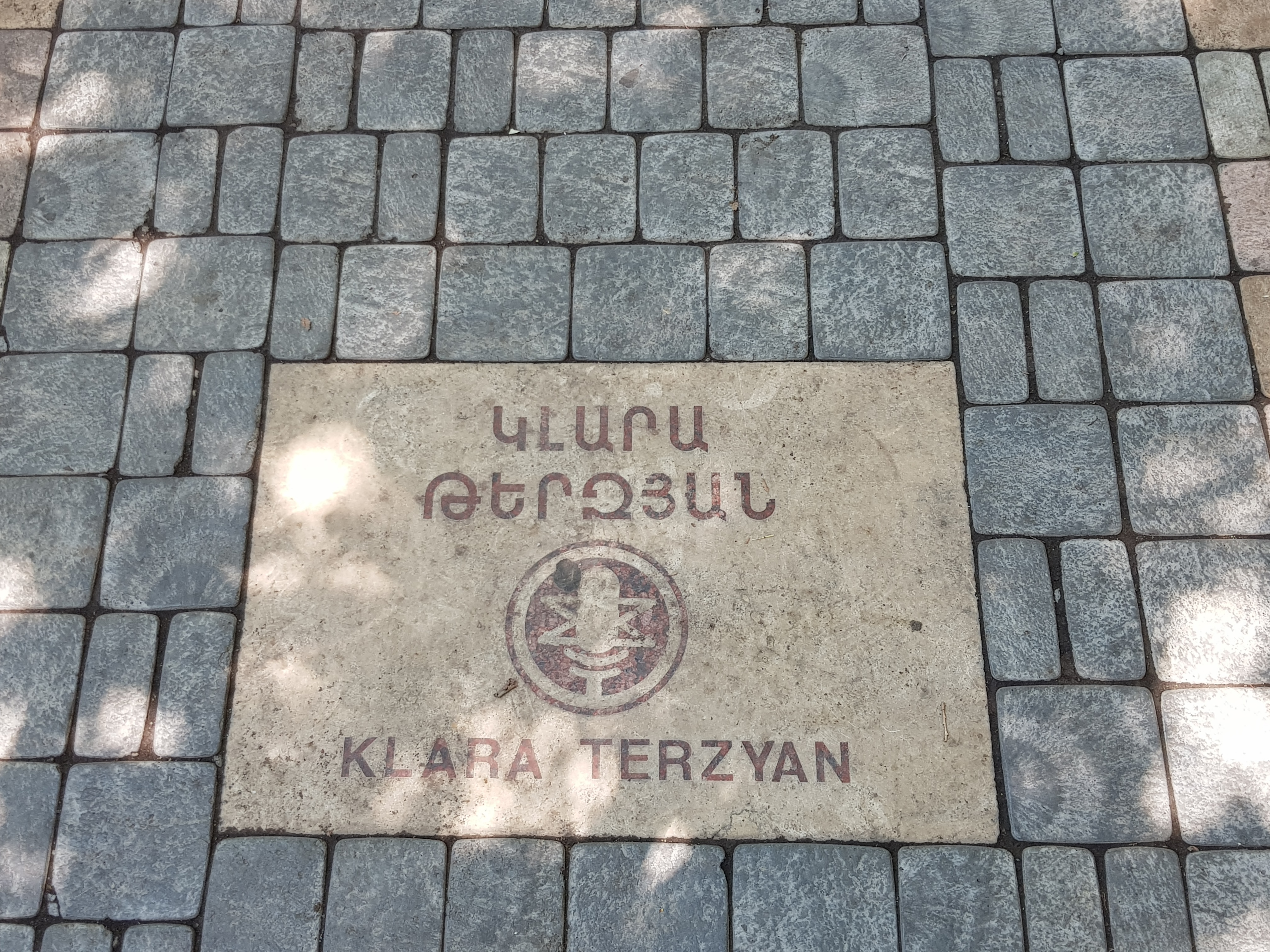 Alley of Devotees, Yerevan